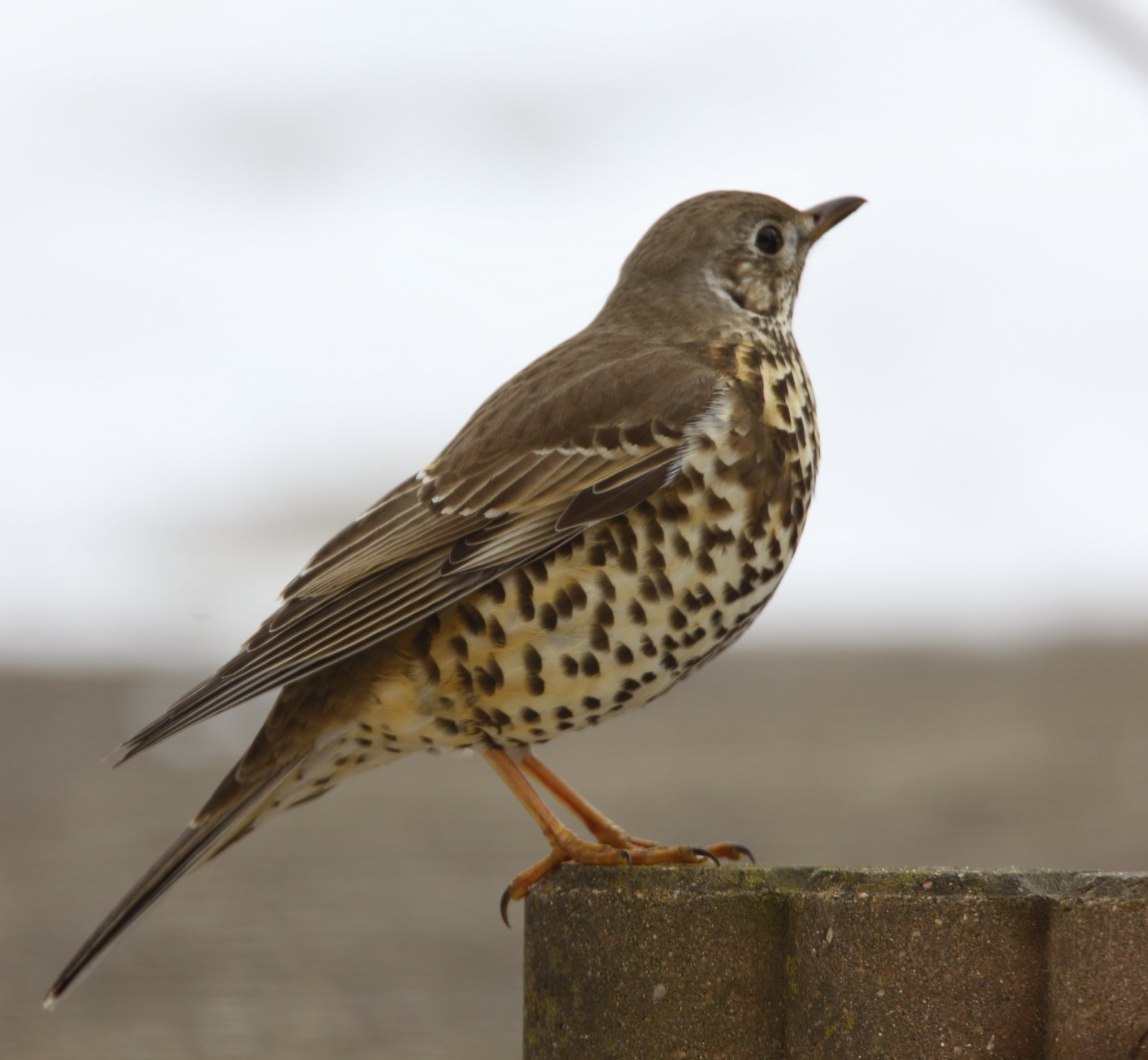 Mistle Thrush in the Netherlands.